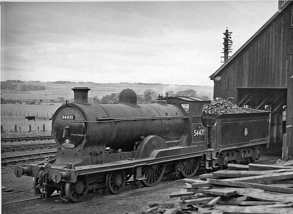 Dingwall Engine Shed, with locomotive View NW, just south of Dingwall Station on the ex-Highland Inverness - Wick (Far North) line and junction for the line to Kyle of Lochalsh. The locomotive is ex-Caledonian Pickersgill 3P 4-4-0 No. 54471.